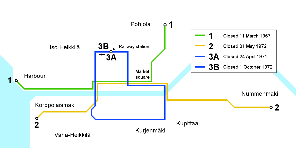 Map of the Turku tram network following the final expansion of the network in 1956 until the closure of the system in 1972. District names in Finnish, texts in English. Versions in other languages made on request.